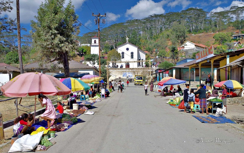 City of Ermera, Timor-Leste Main street of Ermera city, local market along the main road and on the top the Christian church.